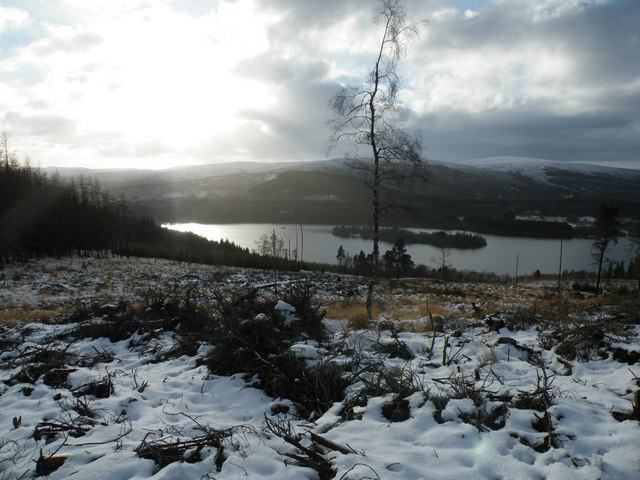 Looking SW from Forest clear Fell Above Loch Moy